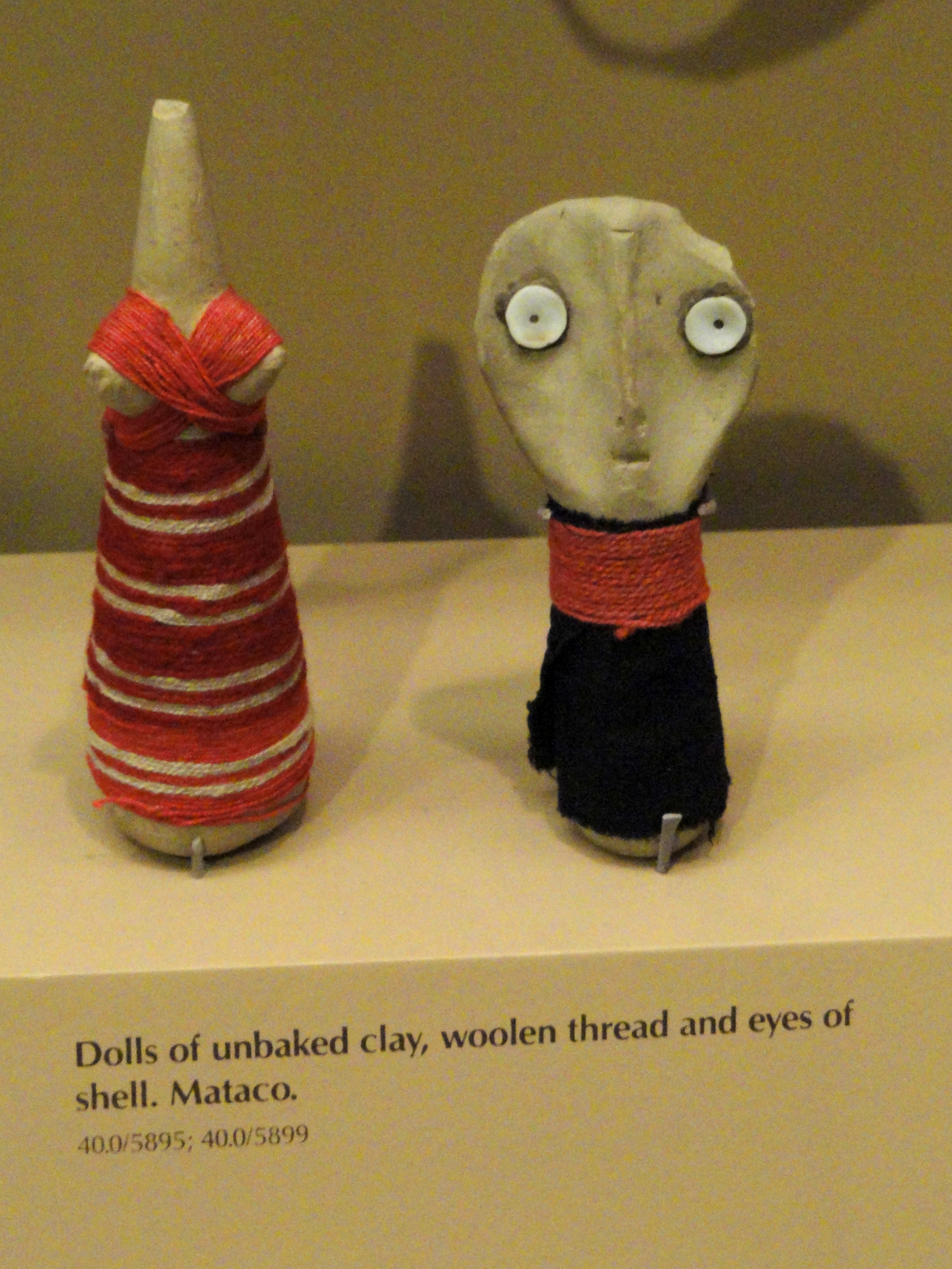 Exhibit in the South American collection of the American Museum of Natural History, Manhattan, New York City, New York, USA.